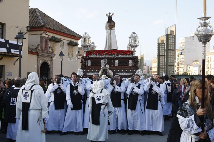 Cristo de la Humillación a su paso por Santo Domingo, 2011